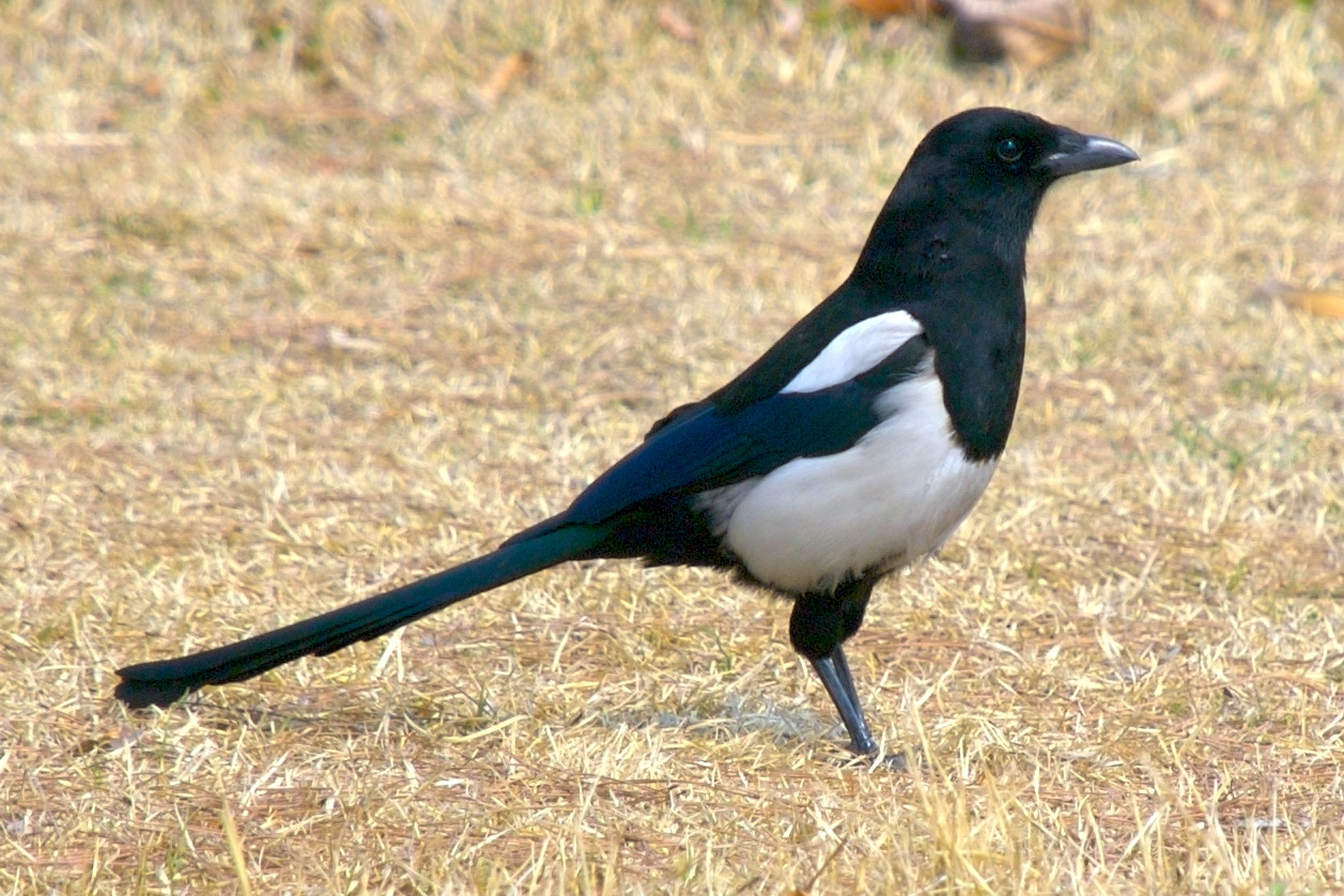 Picture of Oriental Magpie Pica serica in Daejeon, South Korea near the Daejeon City Museum of Art.